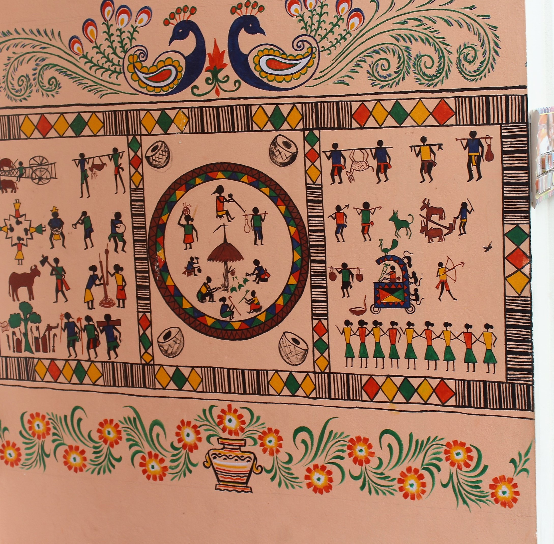 The museum is maintained by Andhra Pradesh under APTDC, contains artefacts related to Amaravathi.